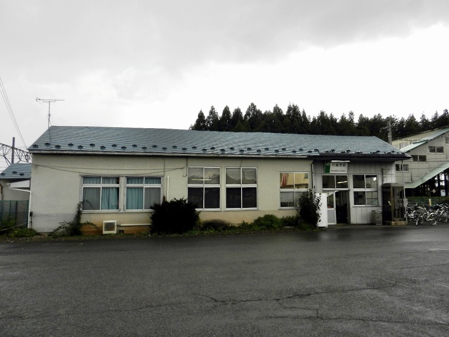 JR East Tohoku main line Murasakino station